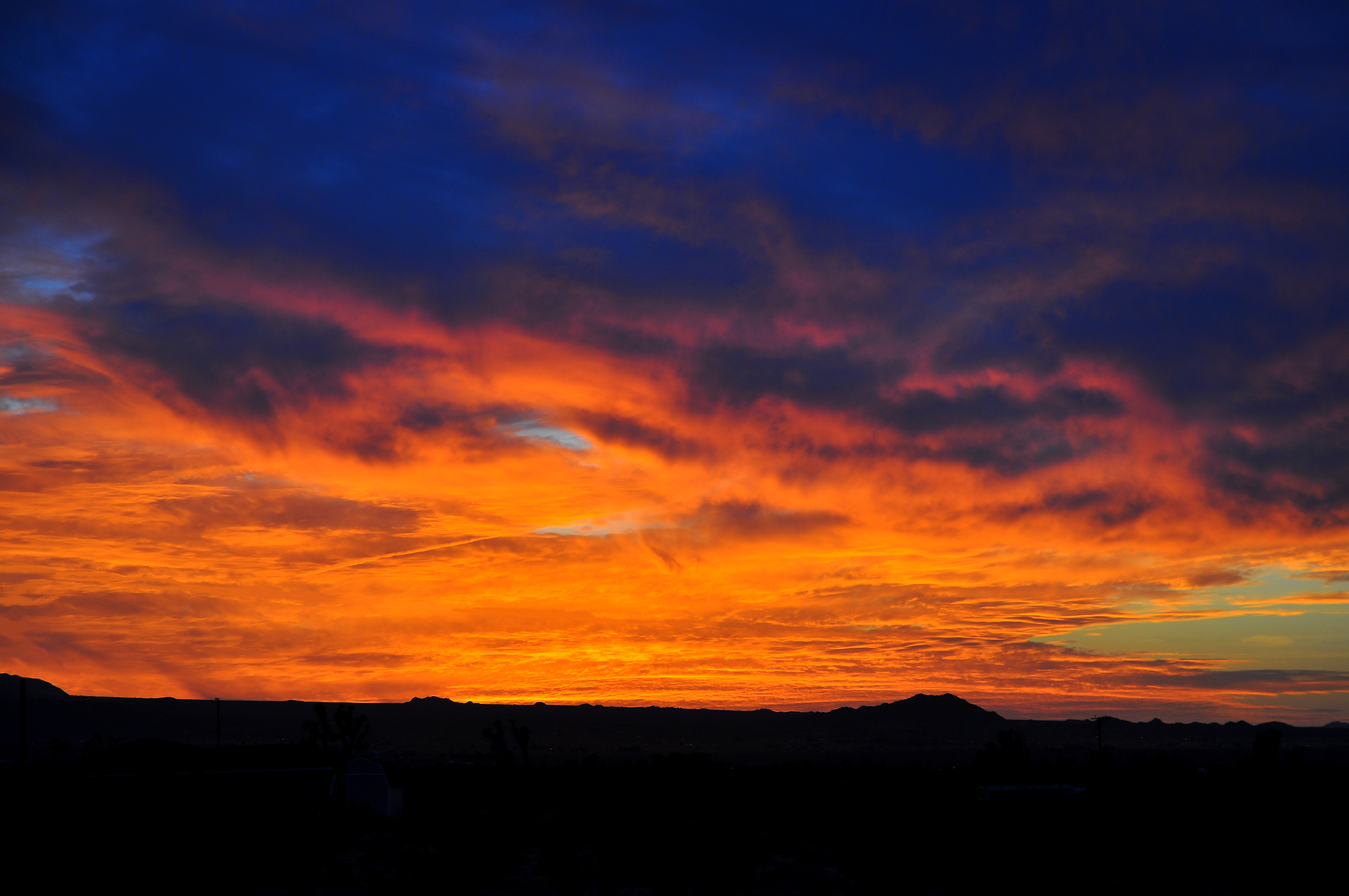 The end of civil twilight, and the beginning of nautical twilight